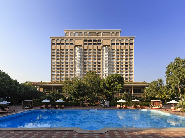 Exterior View of Taj Mahal Hotel, New Delhi